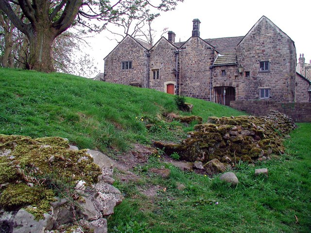 The Roman Fort of Olicana Remains of the 4th century outer walls at the Roman Fort of Olicana, looking south-southeast towards the back of the Manor House Art Gallery & Museum on Castle Street, Ilkley. The Roman fort was first established here in the first century A.D.